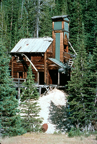 Wolf Mineshaft in Kirwin, Wyoming.